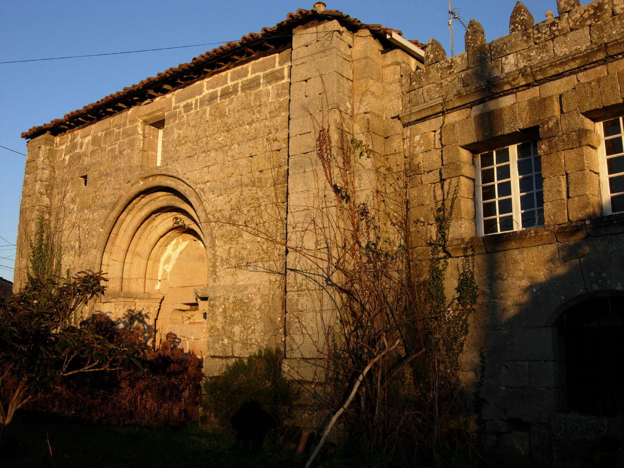 The benedictine feminine monastery of San Miguel de Bóveda has been founded in 1168 by the couple Arias Fernández y Gudina Oduariz. From this moment the nun's community that was established there will be a territorial doma in extended on the parishes of Chao de Amoeiro, apart from the possessions in the Miño's banks or in the city of Chantada. So the Bóveda's monastery, with its abbesses on top, will become the most powerful proprietary of this region during more than three hundreds years. The end of the community will set San Miguel de Bóveda in the Galician medieval history as an example of a conflictive monastery in the XV century, both by the facts (annexed with another masculine monastery) and by the form (many proceedings and the monastery taken by arms).